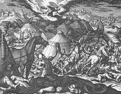 Angel smites the Assyrians